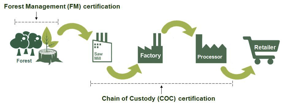 Scheme of FSC certification